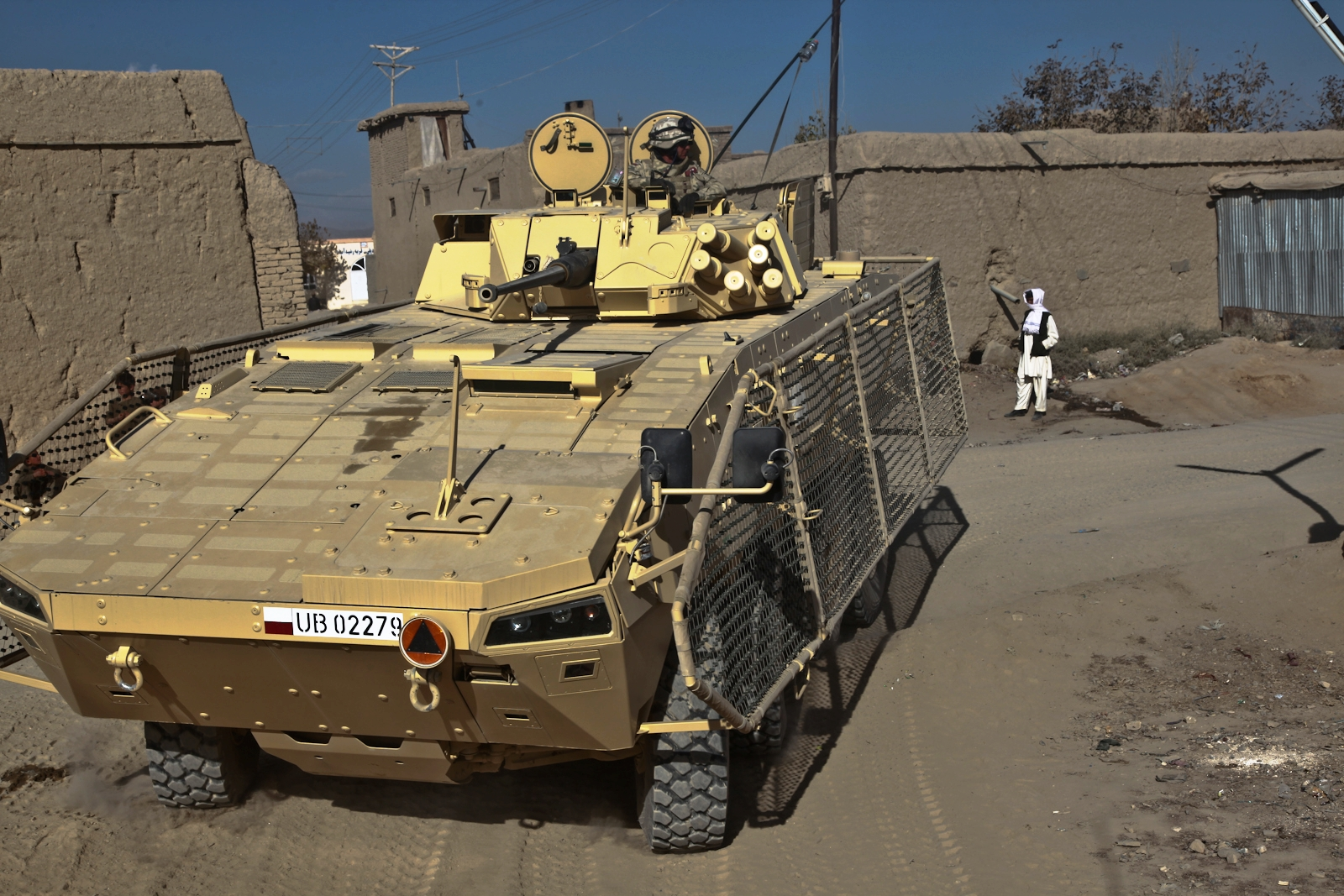 A Polish Rosomak armored vehicle patrols a street in Ghazni, Afghanistan, Nov. 18, 2010.